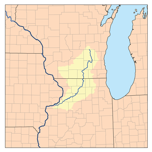 Map of the Rock River watershed (Illinois-Wisconsin). Tributary of the Mississippi River.